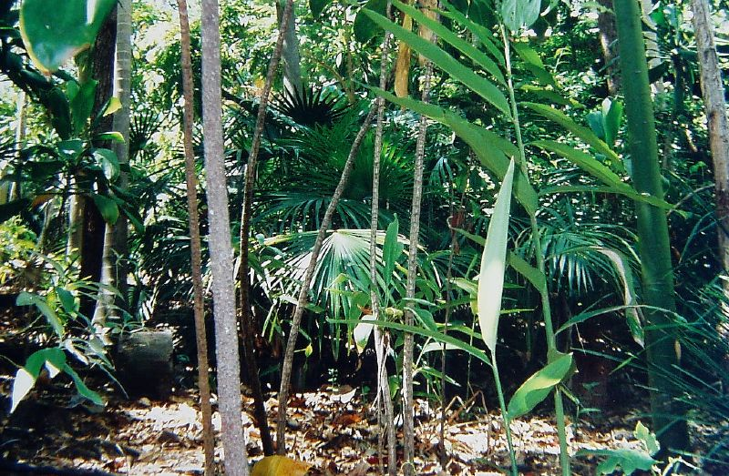 Brisbane Forest Park